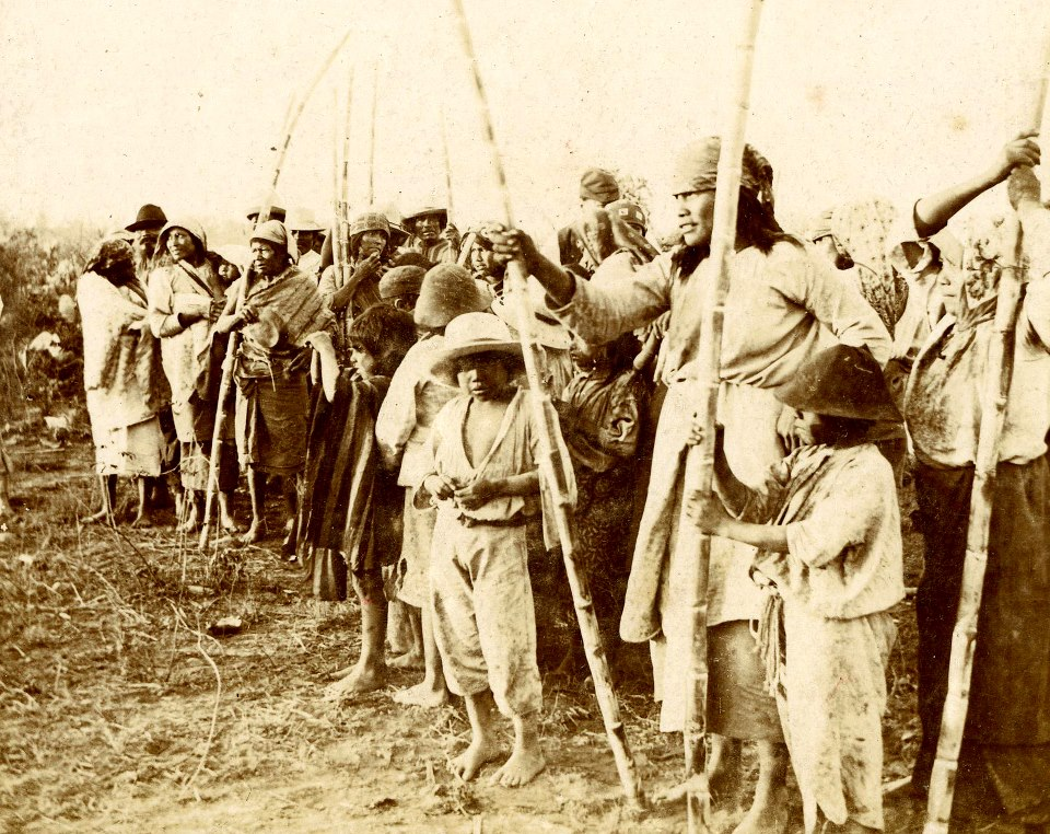 Población de Wichis. Fines del siglo XIX